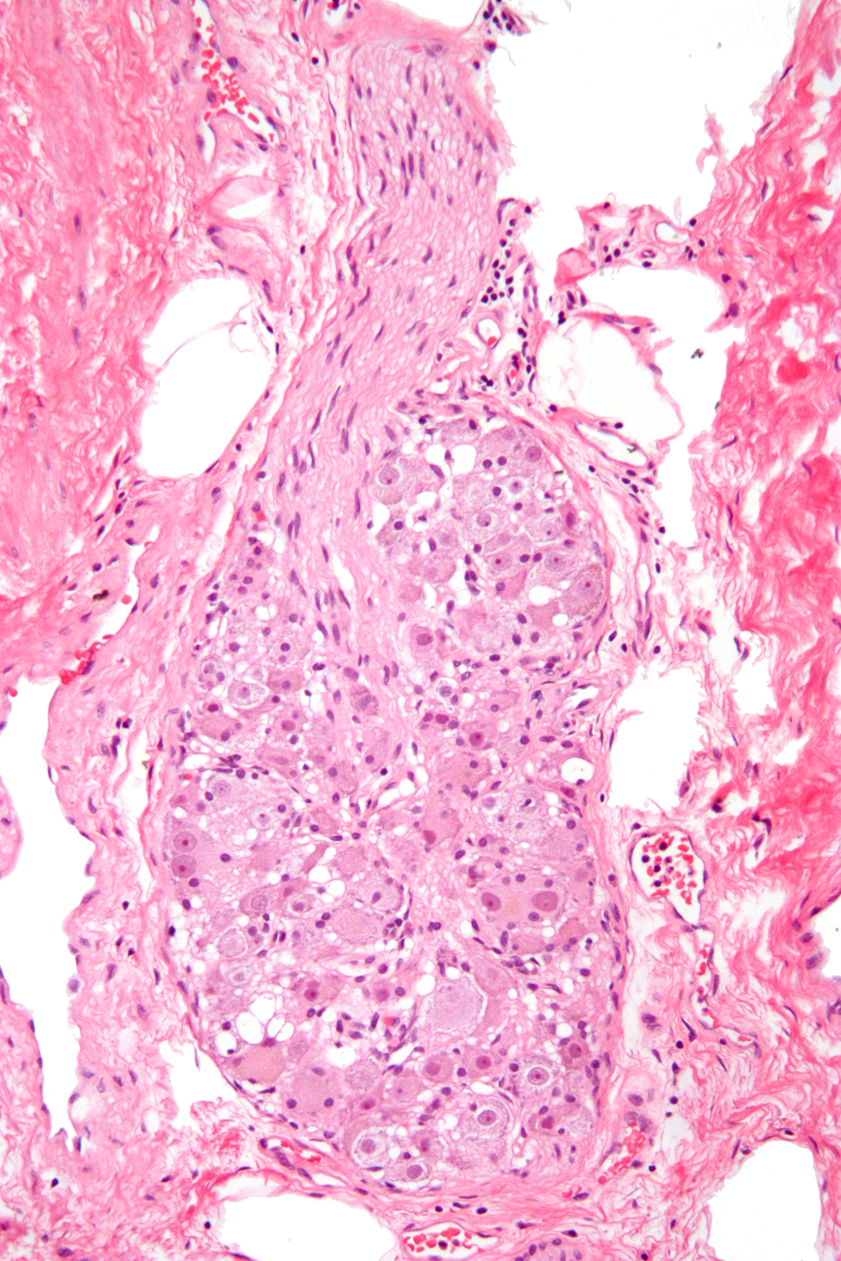 High magnification micrograph of a ganglion. Prostatectomy specimen. H&E stain. Related images Intermed. mag. High mag. Very high mag.